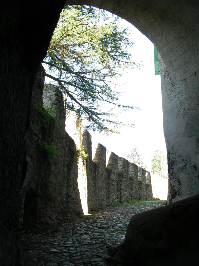 View east through western gatehouse, Karneid castle